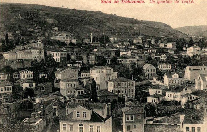 Postcard of Trebizond (Trabzon, Turkey) with a view of the Tekke Neighborhood.